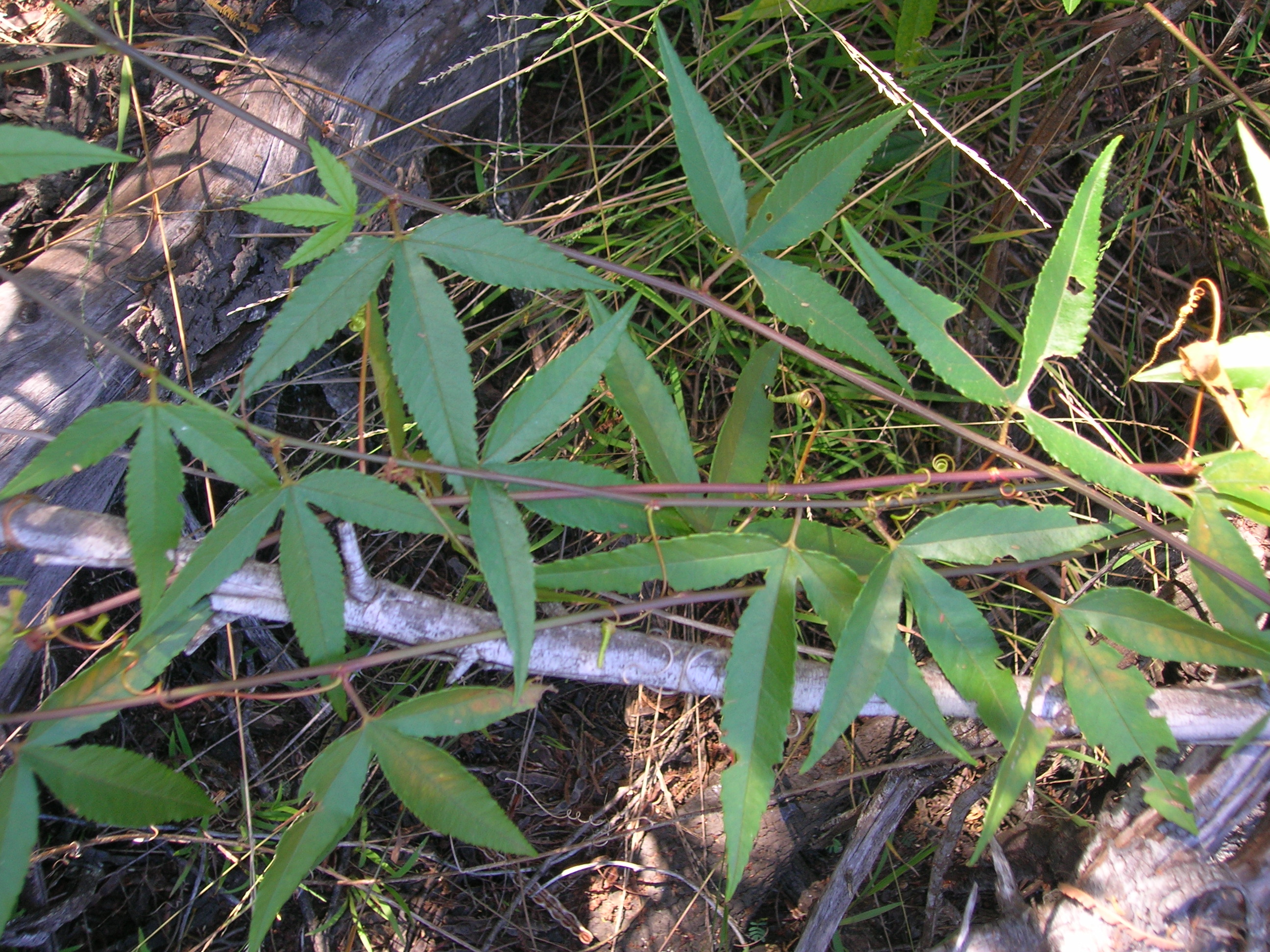 Passiflora tarminiana (leaves). Location: Maui, Keahuaiwi Gulch